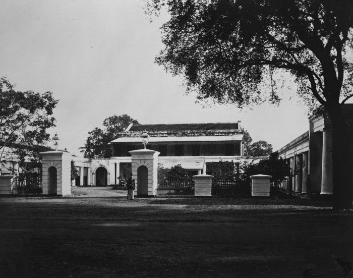 The residency of the governor at Makassar